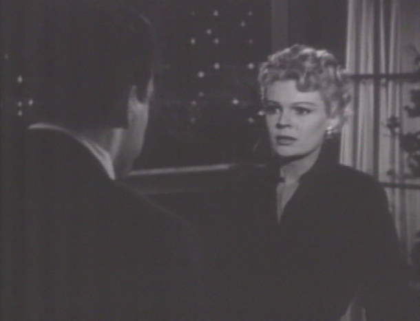 Cropped screenshot of Edmond O'Brien and Lynn Baggett from the film D.O.A. (1950).